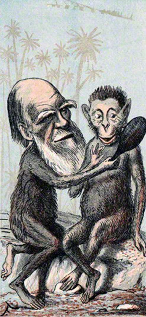 Prof. Darwin This is the ape of form. Love's Labor Lost. act 5, scene 2. Some four or five descents since. All's Well that Ends Well. act 3, sc. 7.